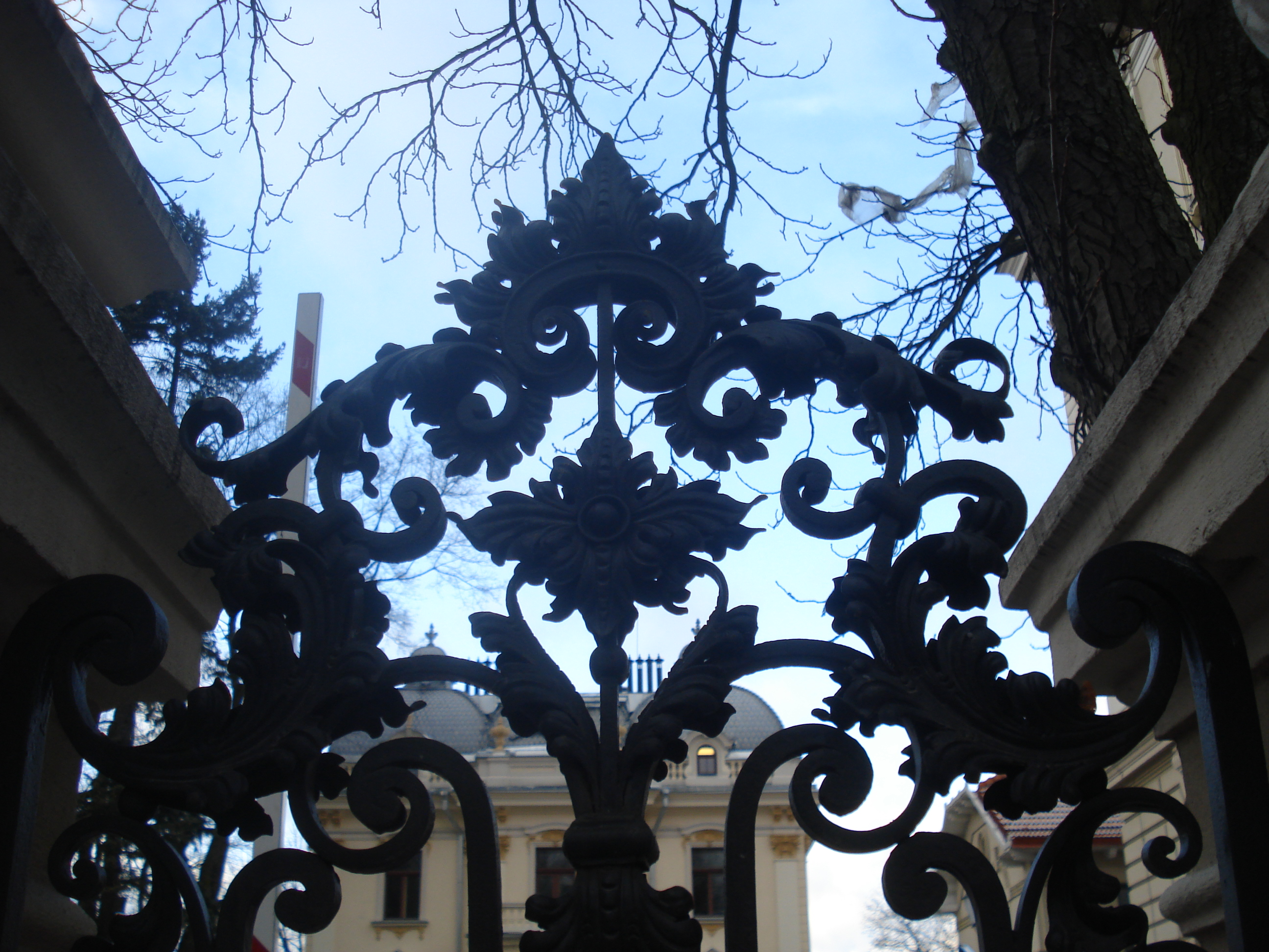 Fence of the palace of the Vileišis family (now Institute of Lithuanian Literature and Folklore)